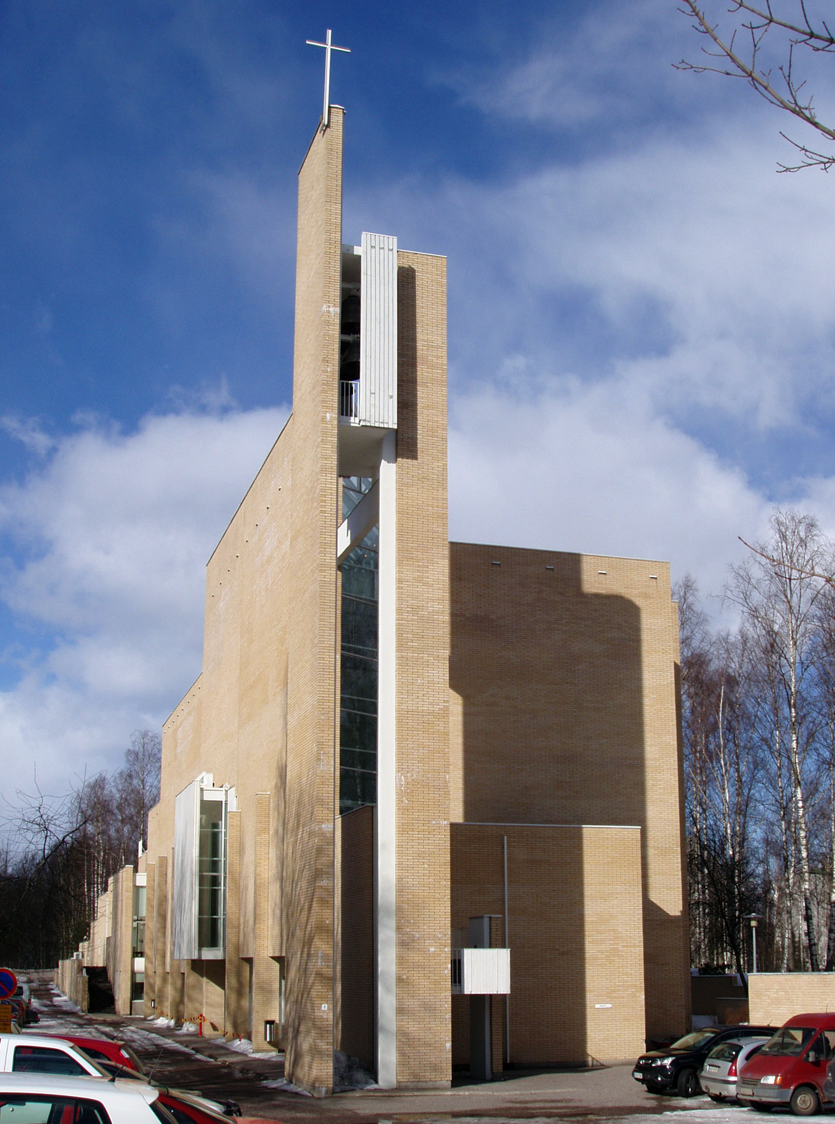 Juha Leiviskä, Myyrmäki Church, Vantaa, Finland, 1984